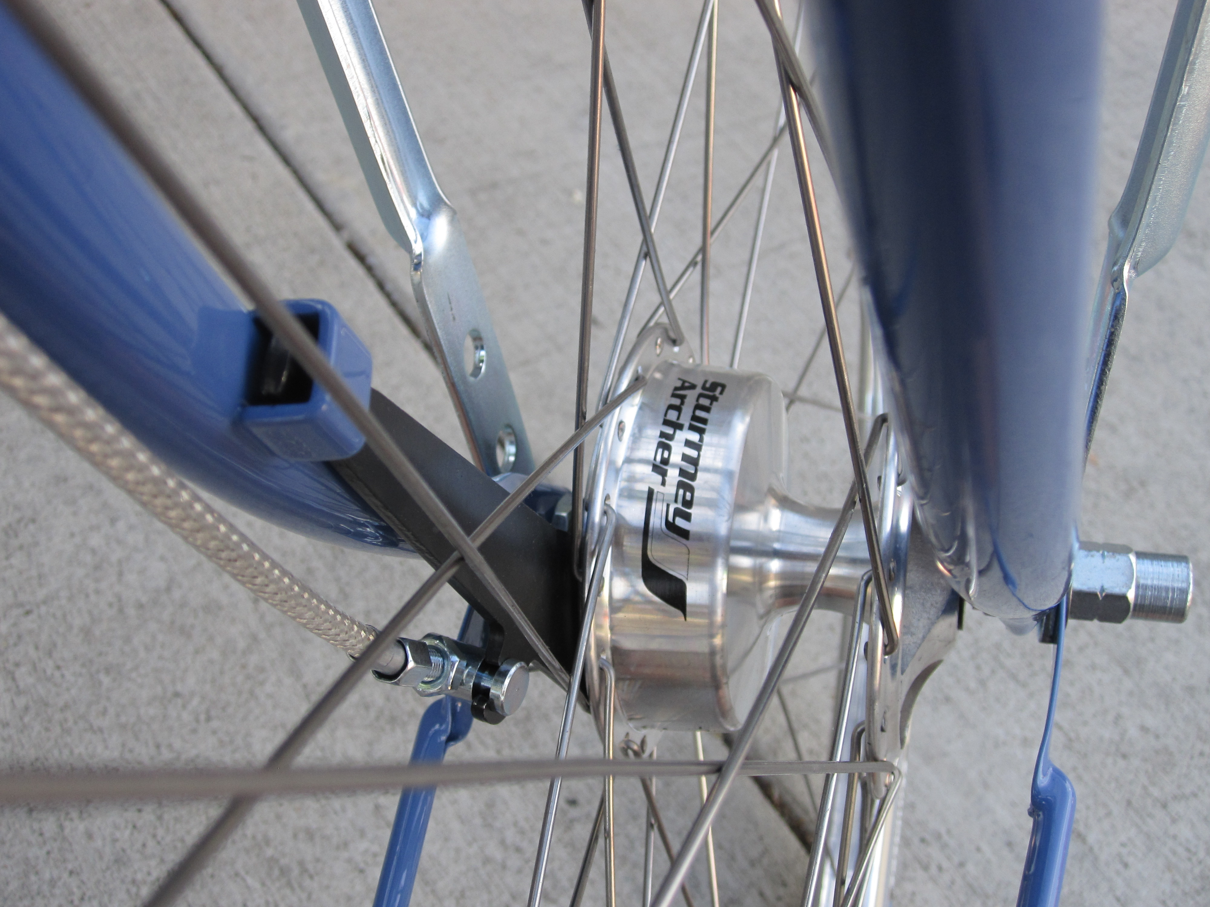 Pashley Poppy lilac